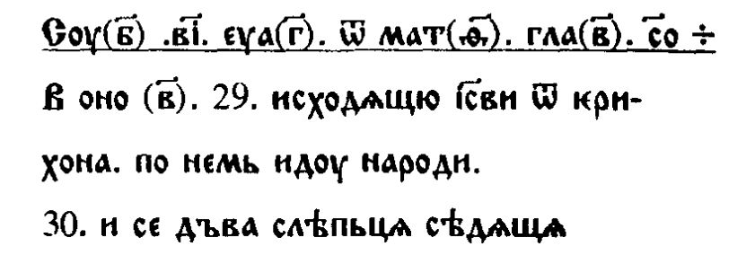 Archangel Gospel